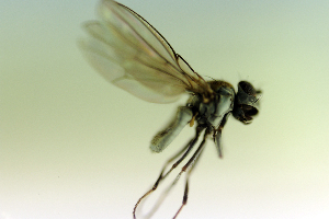 Scatella paludum (Diptera: Ephydridae)